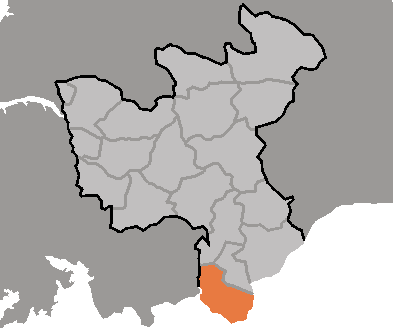 Map of Kaepung, Hwanghae-pukto, DPRK, 2006